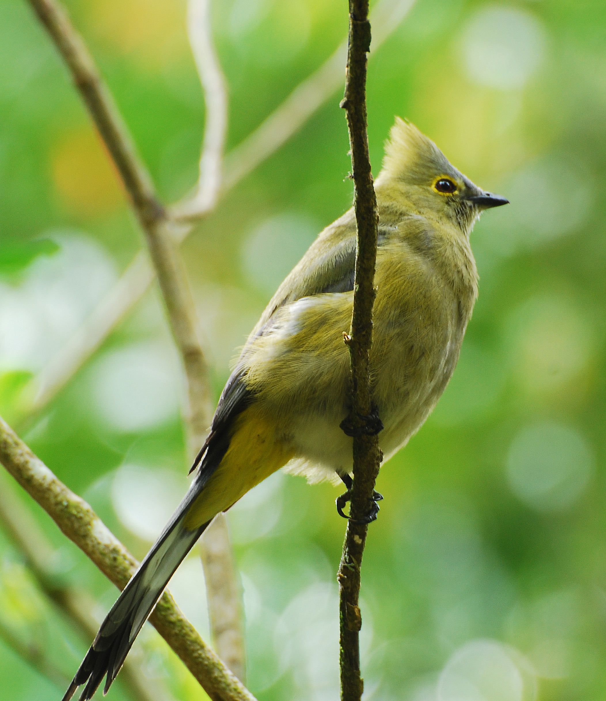 Long-tailed Silky-flycatcher (Ptilogonys caudatus) at Savegre Lodge, Costa Rica, 080227. .